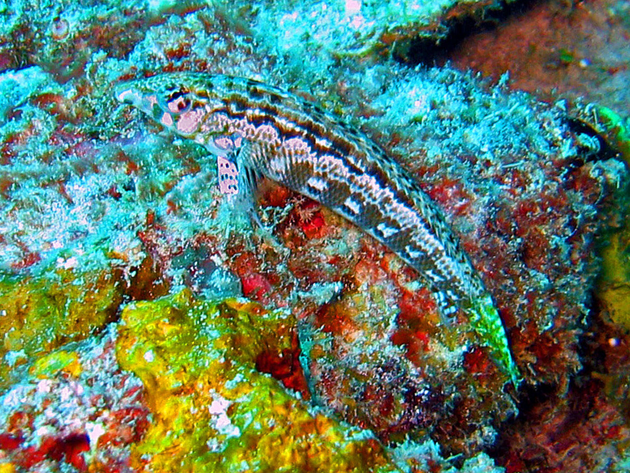 Parapercis cylindrica in Sulawesi